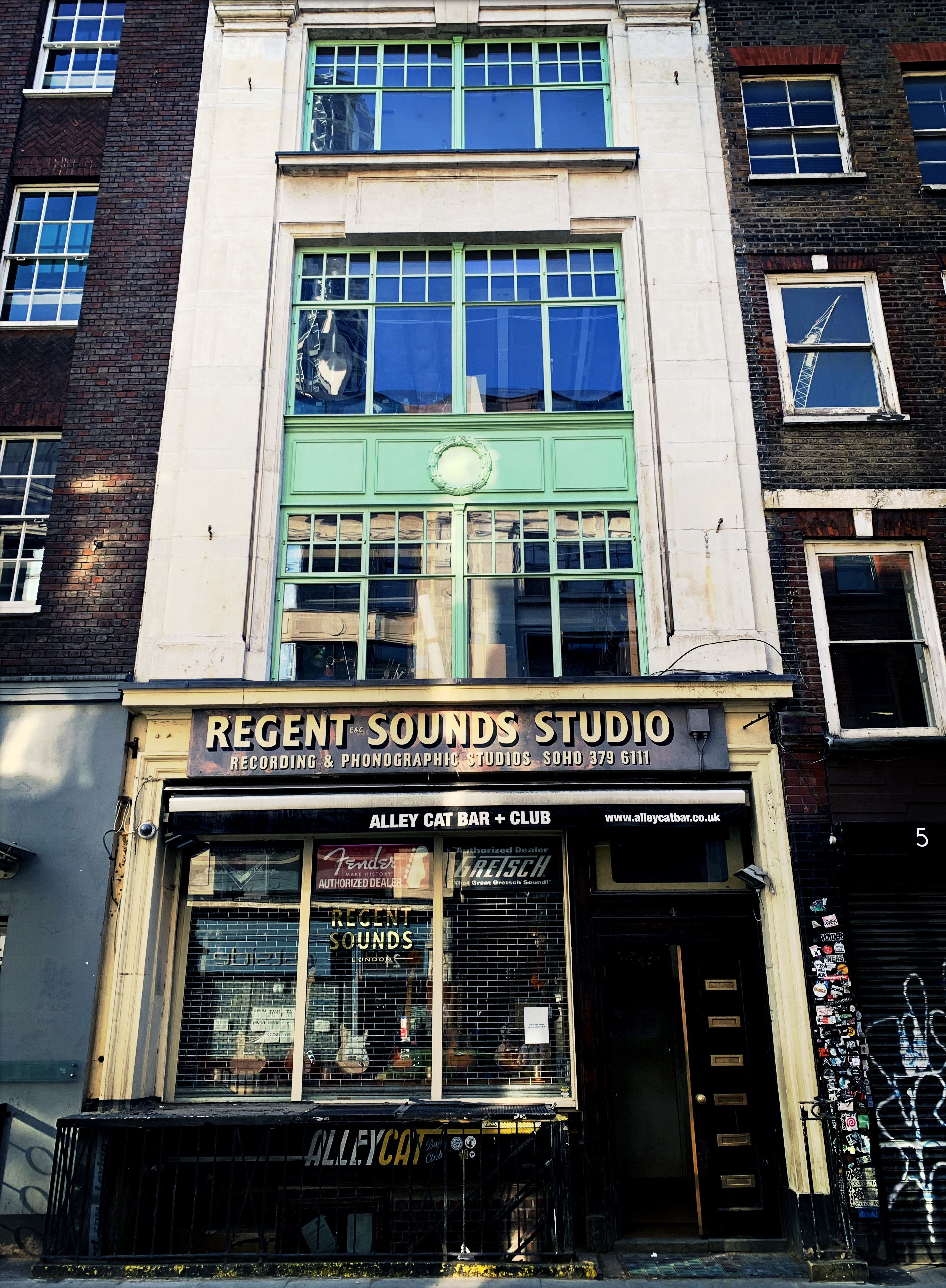 Regent Sounds Studio at 4 Denmark St, West End, London